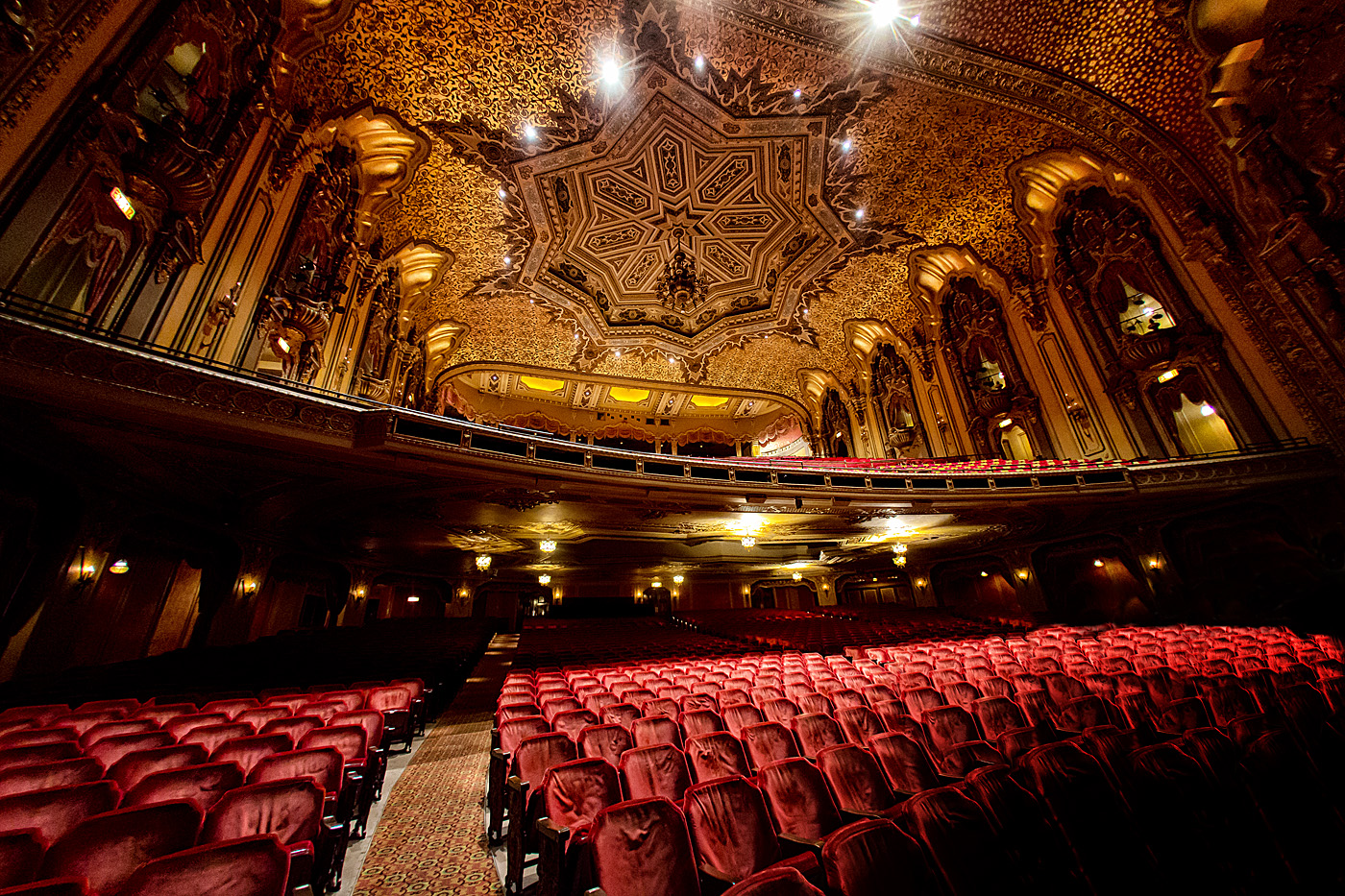 Ohio Theatre